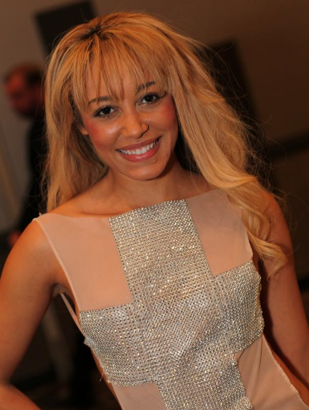 Tinslee Reagan at AEE Expo Photos from the 2013 AVN Expo & AVN Awards held at the at the Hard Rock Hotel & Casino in Las Vegas.